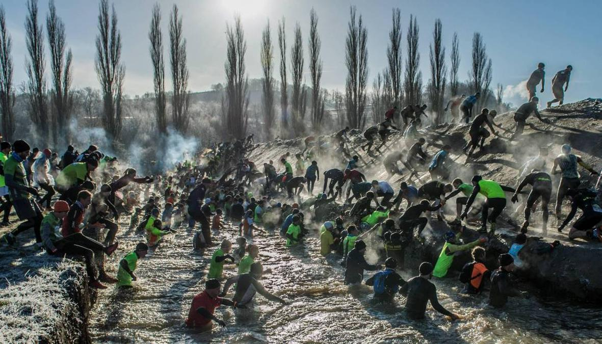 Getting Tough Rudolstadt